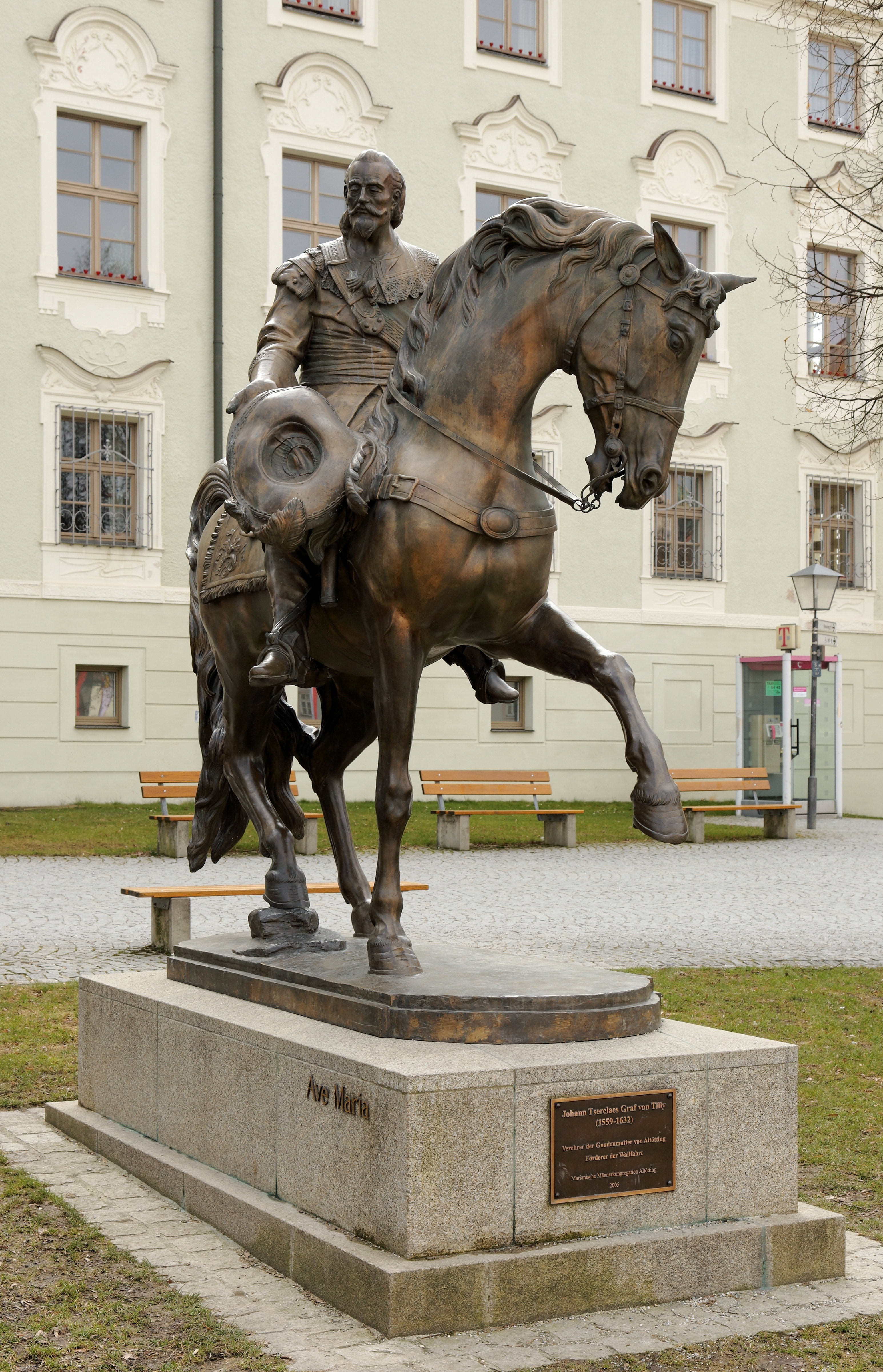 Bronze of Johan t'Serclaes, Count of Tilly, in Altoetting Sebastian Osterrieder (1864–1932) DescriptionGerman sculptorDate of birth/death 19 January 1864 5 June 1932 Location of birth/death Abensberg MunichWork location Munich Authority control : Q1114799 VIAF: 77086129 ISNI: 0000 0001 2028 8935 LCCN: no2011093006 GND: 117158690 RKD: 447006 WorldCat creator QS:P170,Q1114799